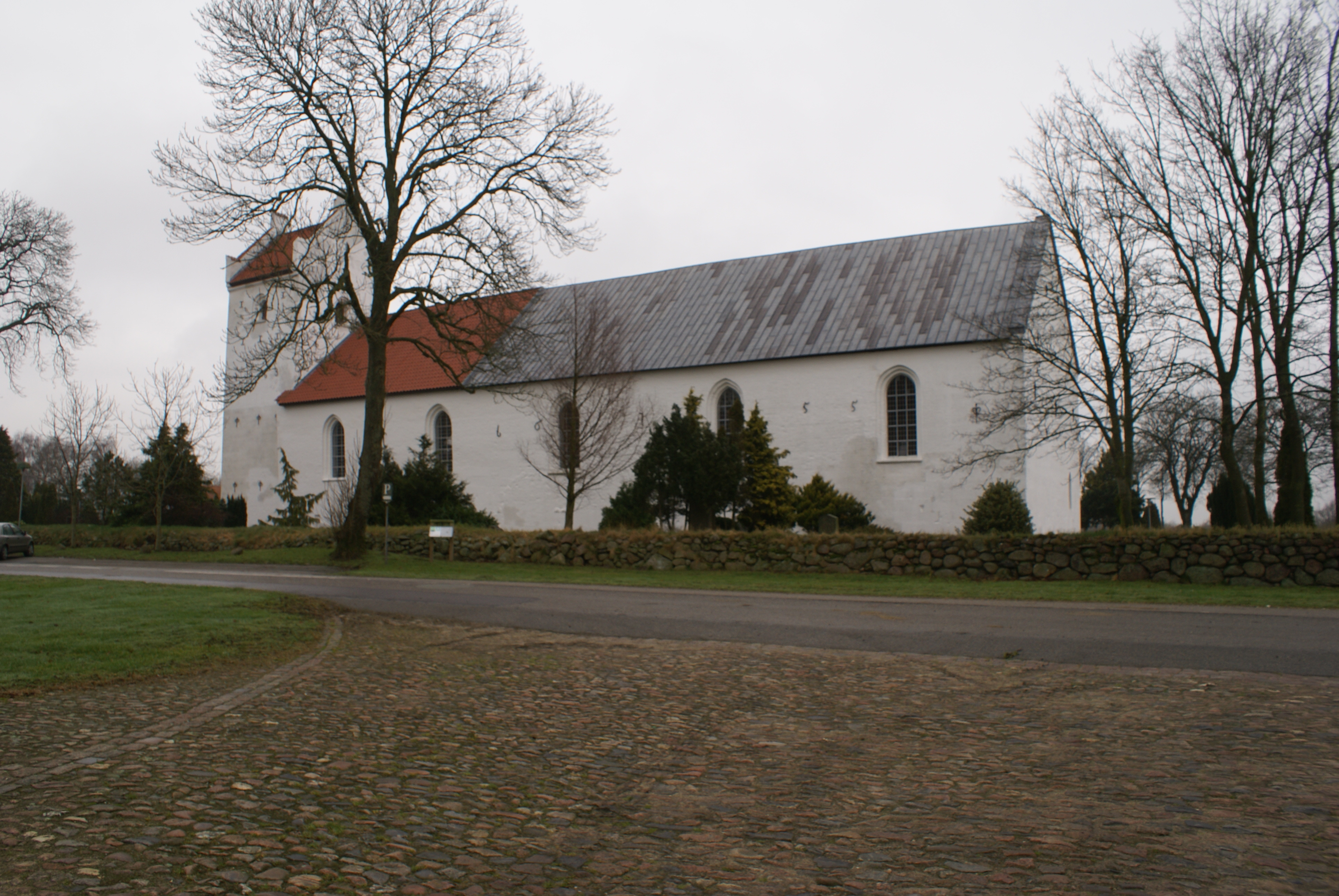 Vrejlev Kloster, Denmark, former convent